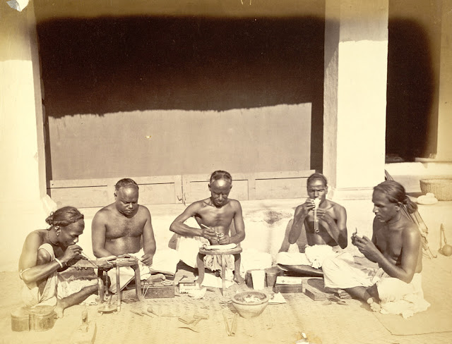 Goldsmiths of the Sonar caste, Cuttack, Orissa, India 1873